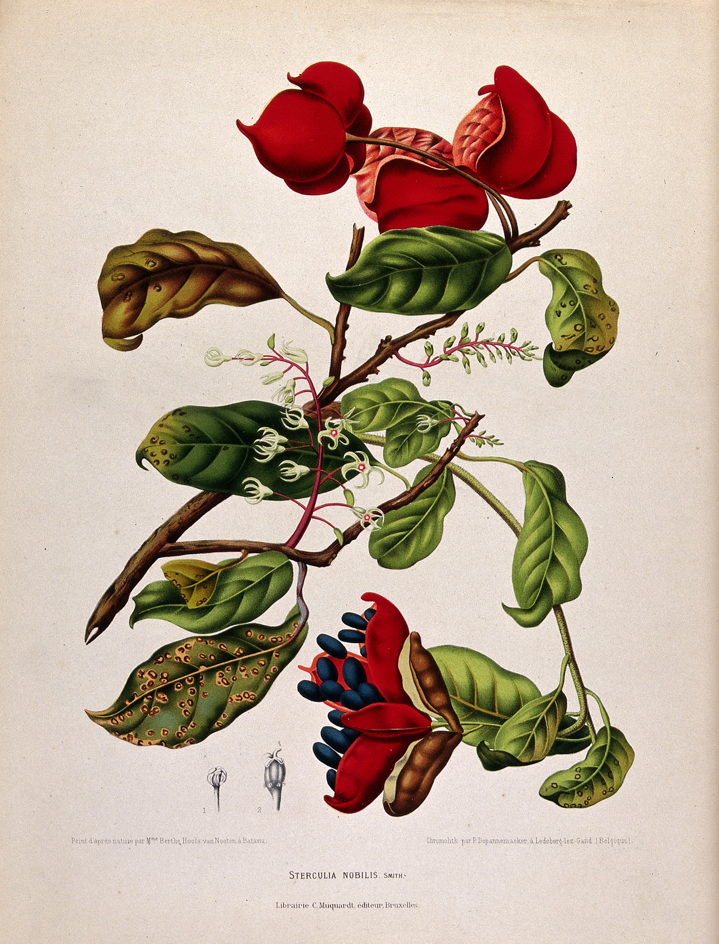 A plant (Sterculia nobilis Smith.): flowering and fruiting branch with separate numbered flower sections. Chromolithograph by P. Depannemaeker, c.1885, after B. Hoola van Nooten. Iconographic Collections Keywords: Berthe van Nooten Hoola; tropical plants; botany - java (indonesia); chromolithographs; Pierre Joseph Depannemaeker; Sterculiaceae; island flora; Sterculia; plants, edible - java (indones; scientific illustrations